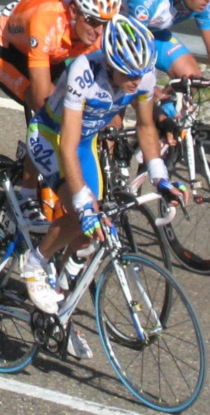 Hubert Dupont, 2008 Vuelta a España, 8th stage, Port de la Bonaigua, Spain.